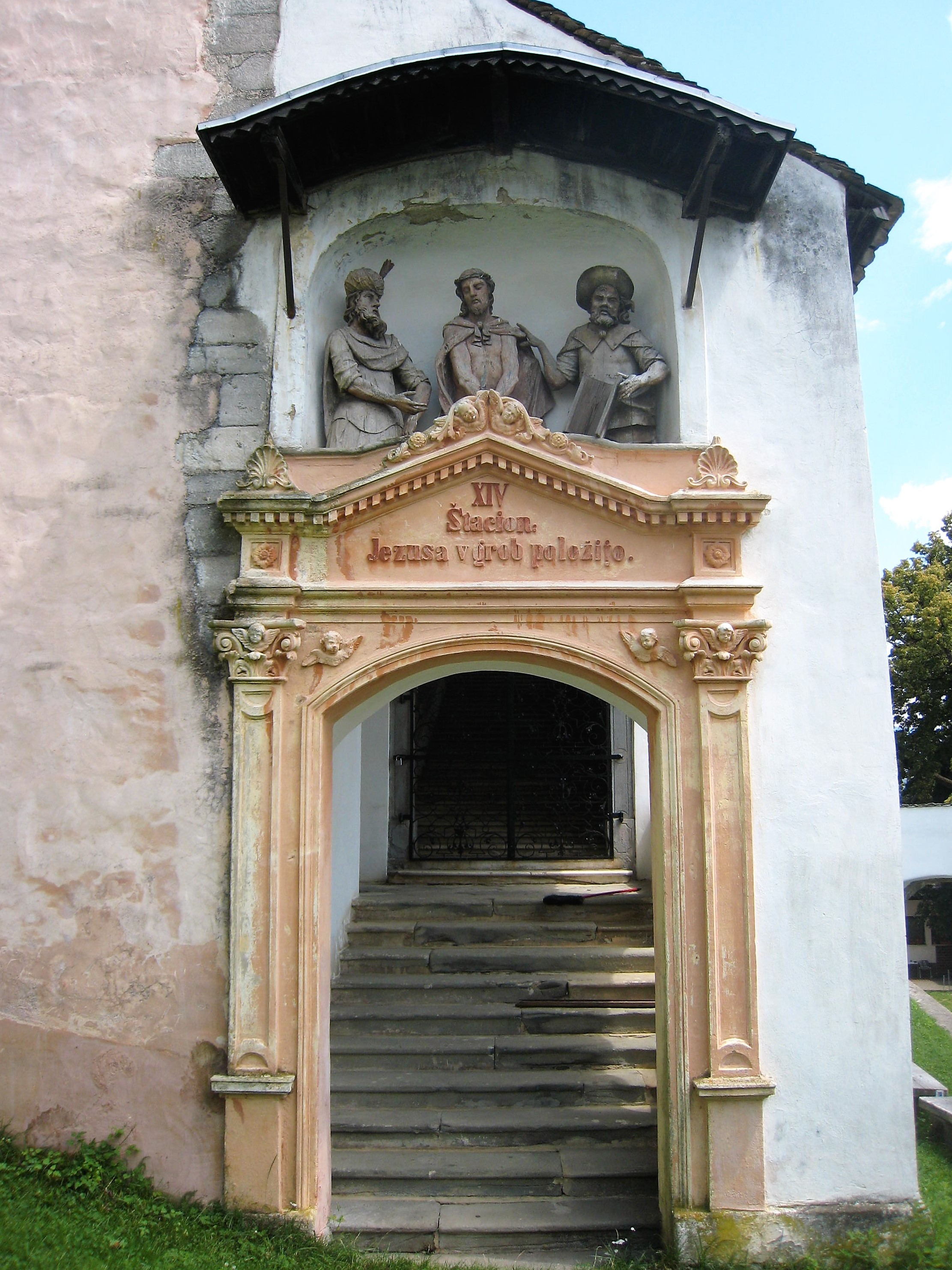 St. Pancras Parish Church, Slovenj Gradec: The portal of the Holy staircase